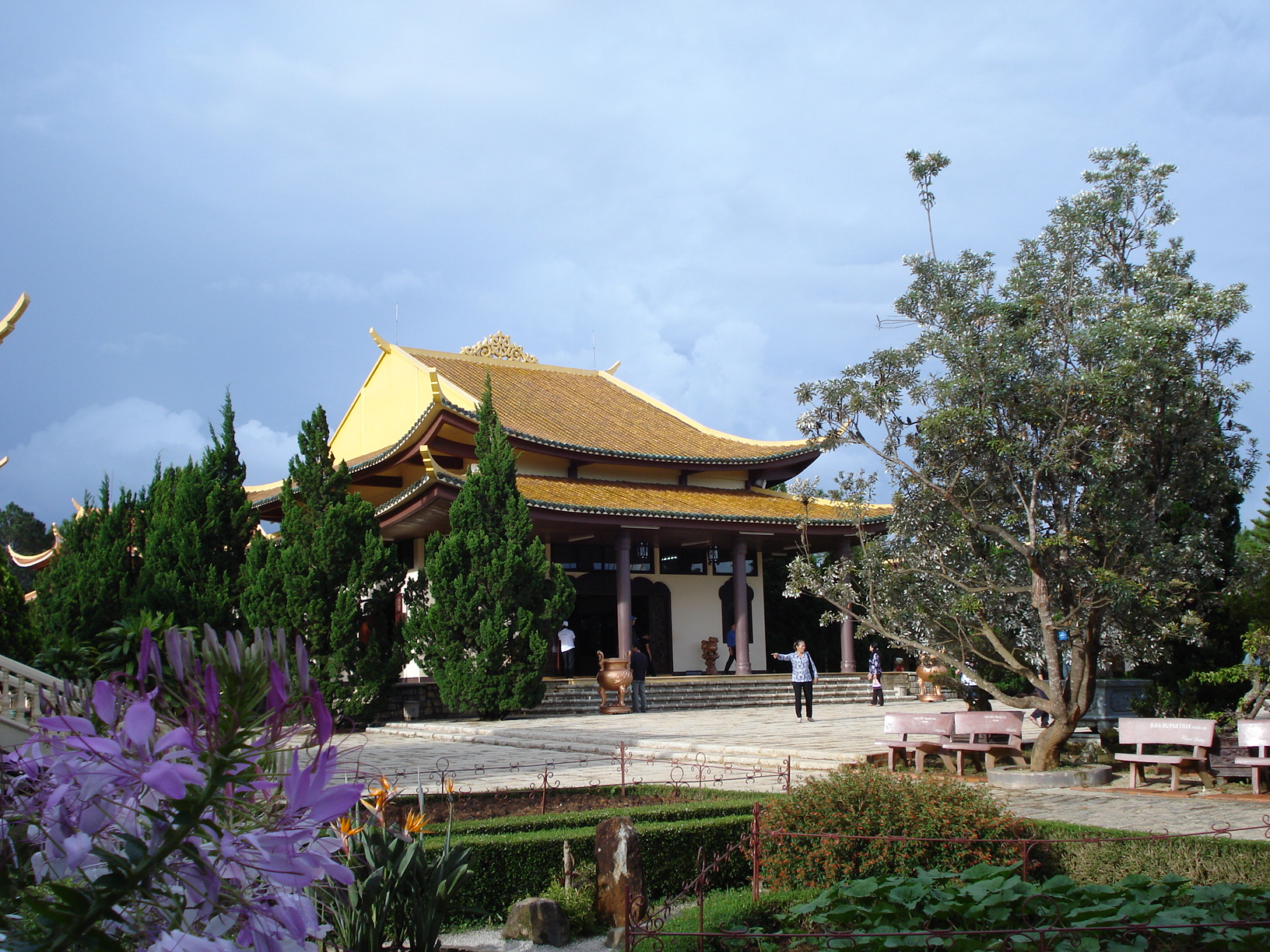 Gardens at Truc Lam Zen Monastery, Da Lat, Vietnam.